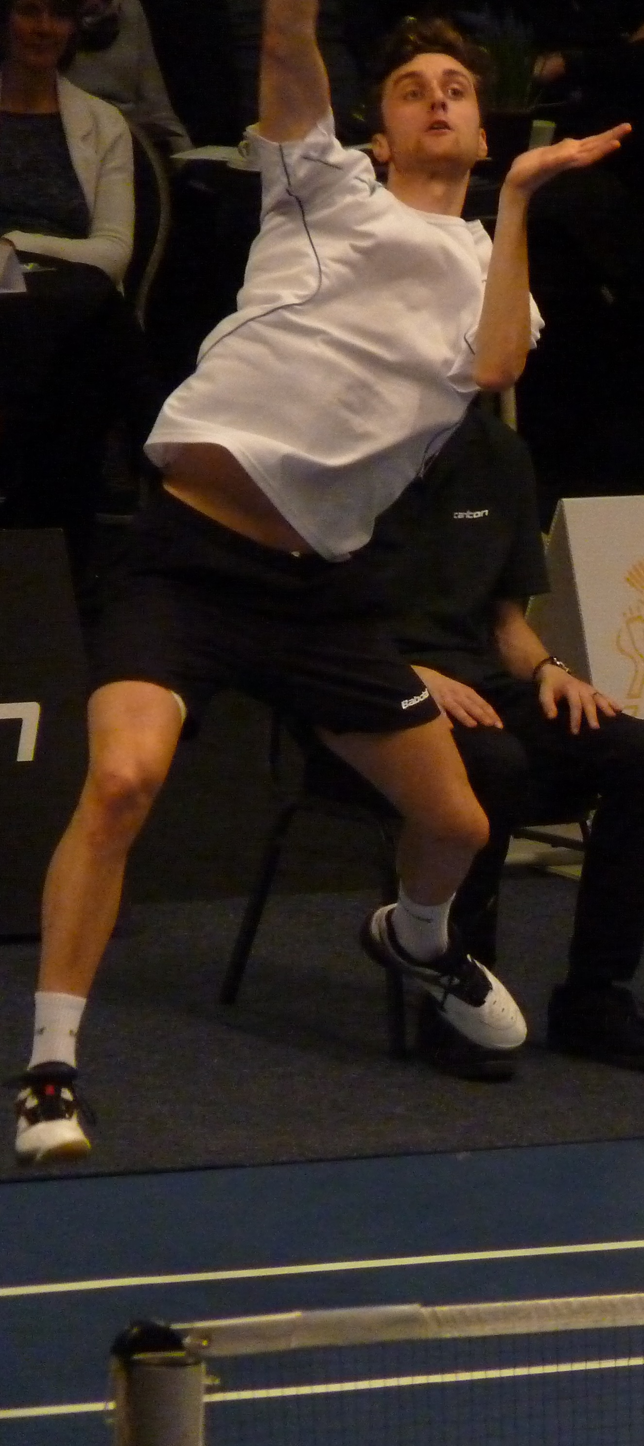 Jacco Arends (the Netherlands)